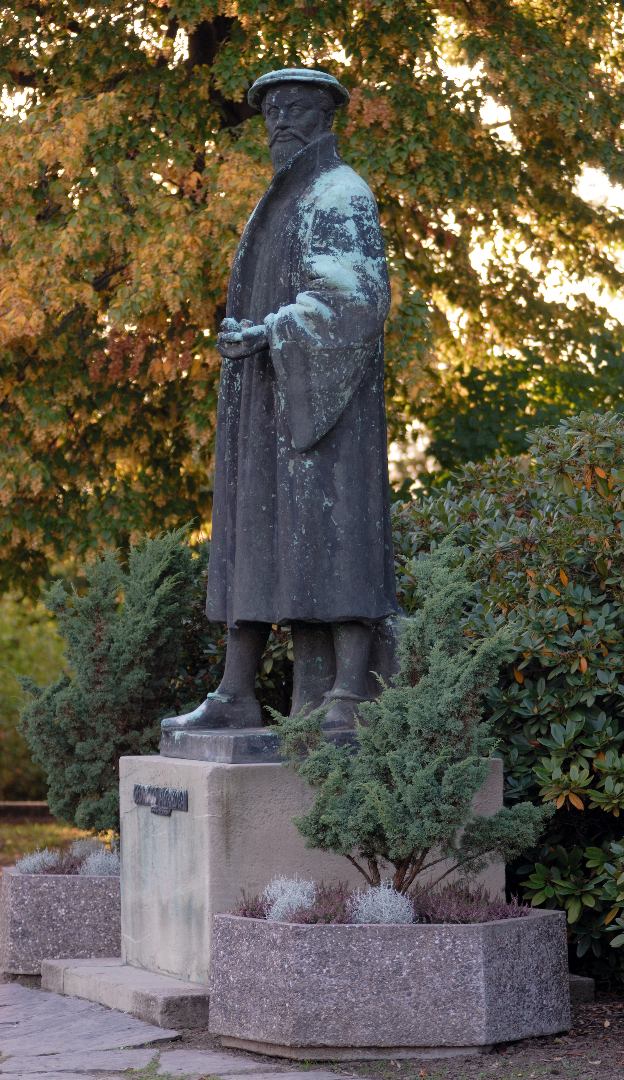 This image shows the Georgius Agricola memorial in Glauchau, Germany.